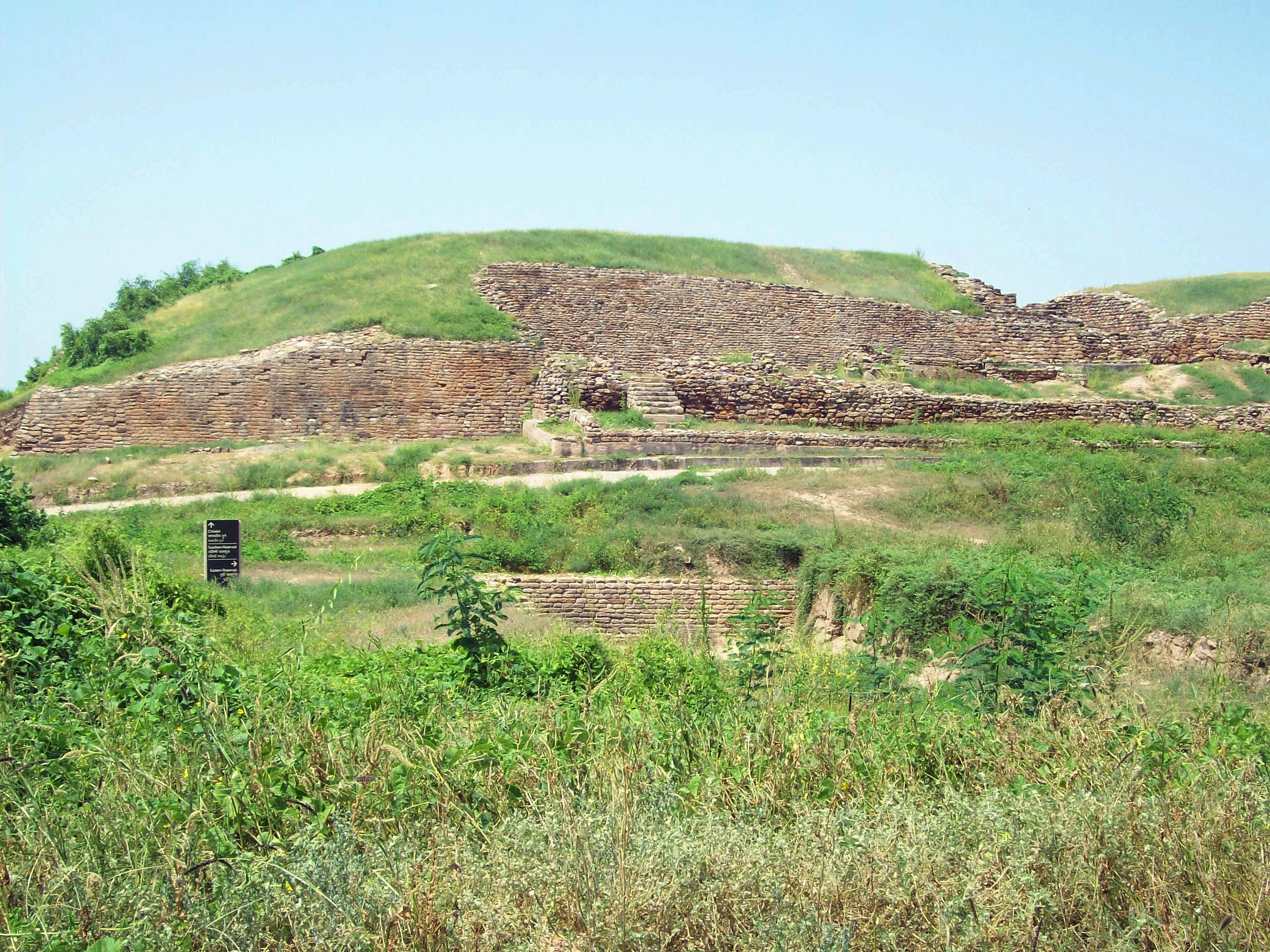 Dholavira